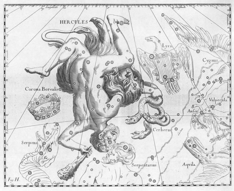 The Canes Venatici constellation from Uranographia by Johannes Hevelius. The view is mirrored following the tradition of celestial globes, showing the celestial sphere in a view from "ouside"